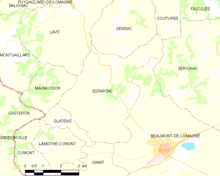 Map of French municipality Esparsac